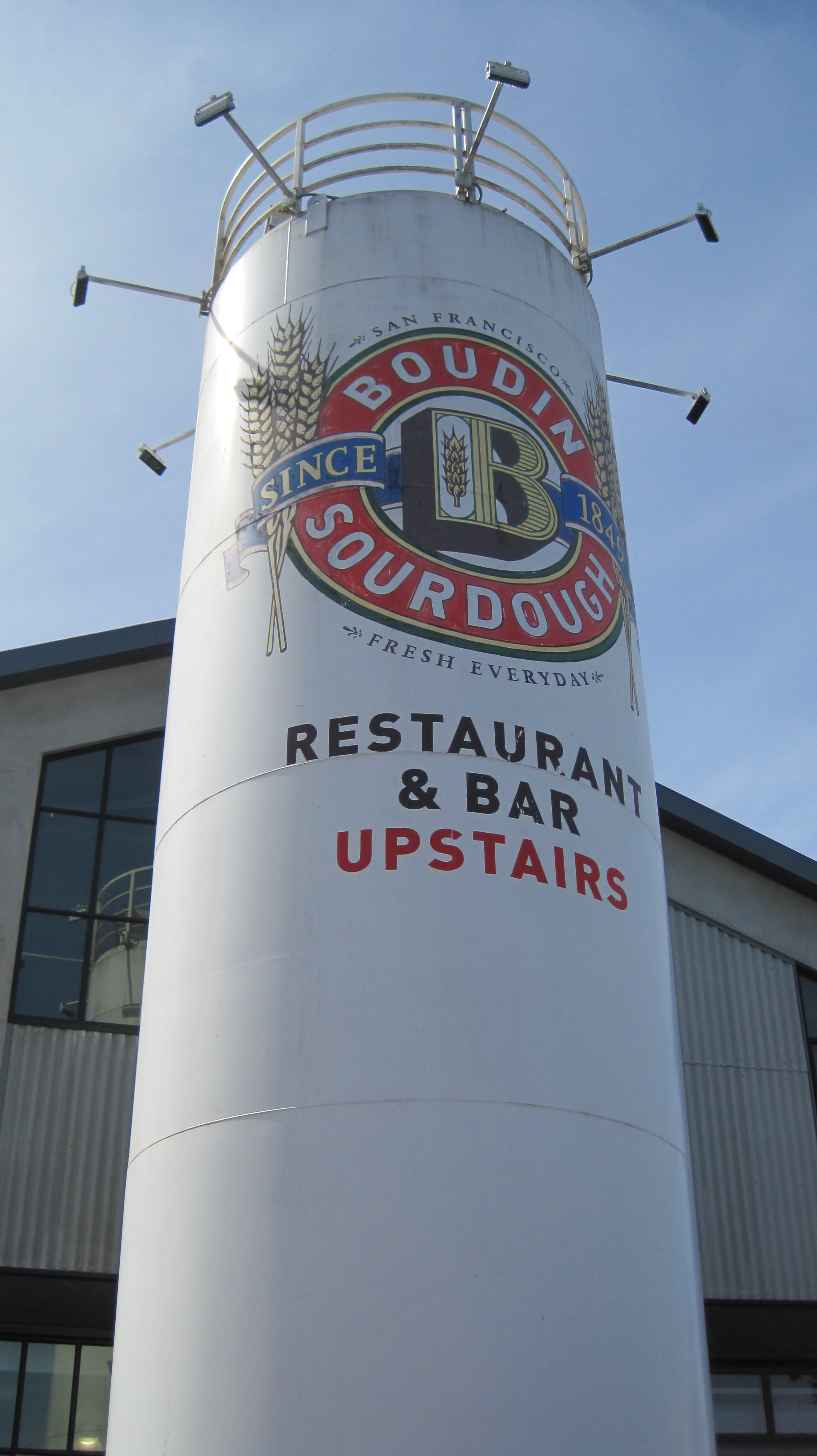 The stack of Boudin Bakery in Fisherman's Wharf, San Francisco.